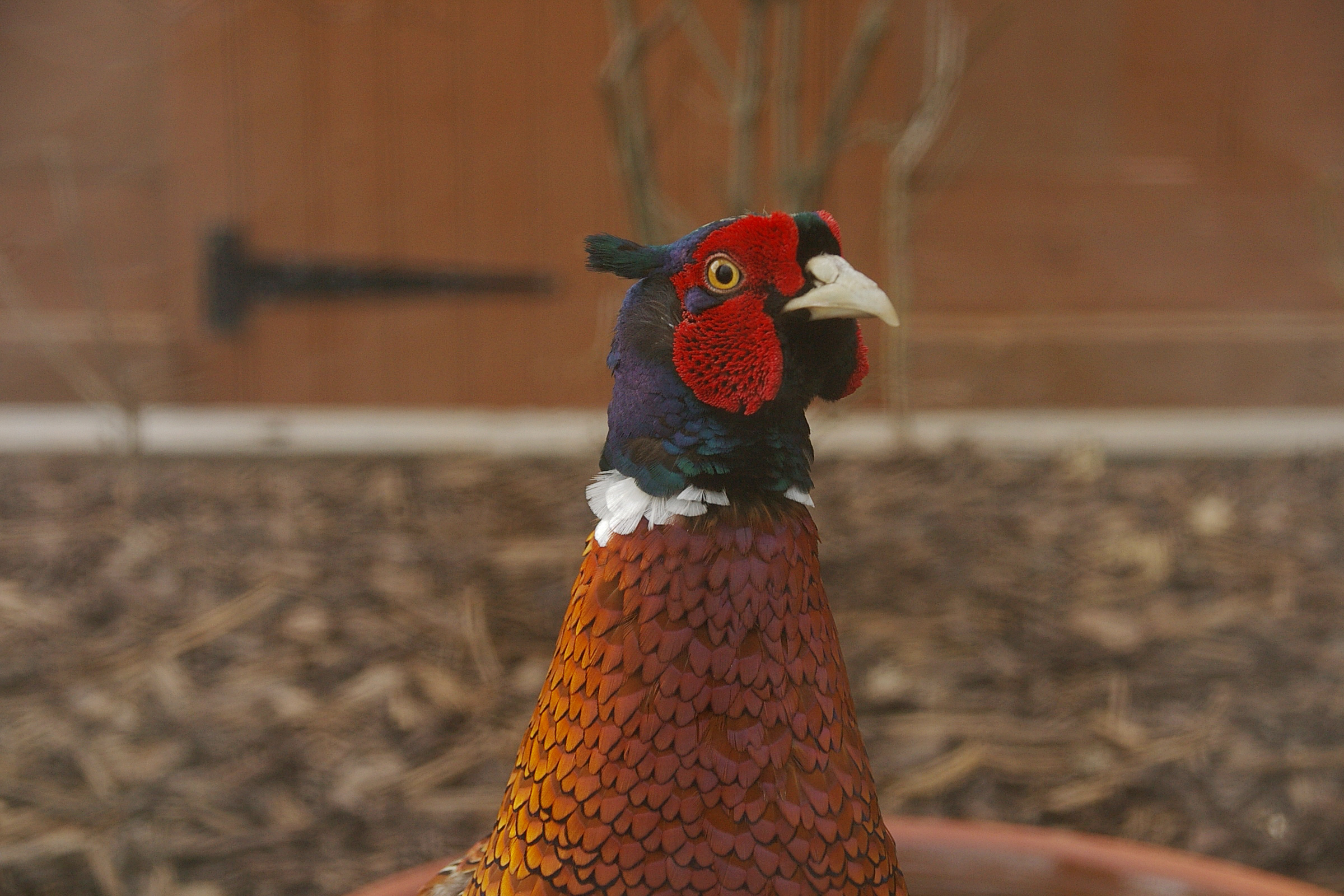 Kenilworth Castle - pheasants (phasianus colchicus) in the Elizabethan garden